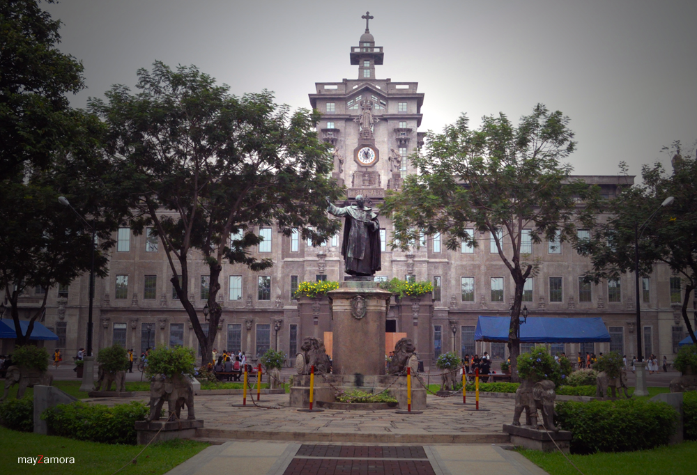 University of Santo Tomas (1611) The oldest chartered university in Asia.